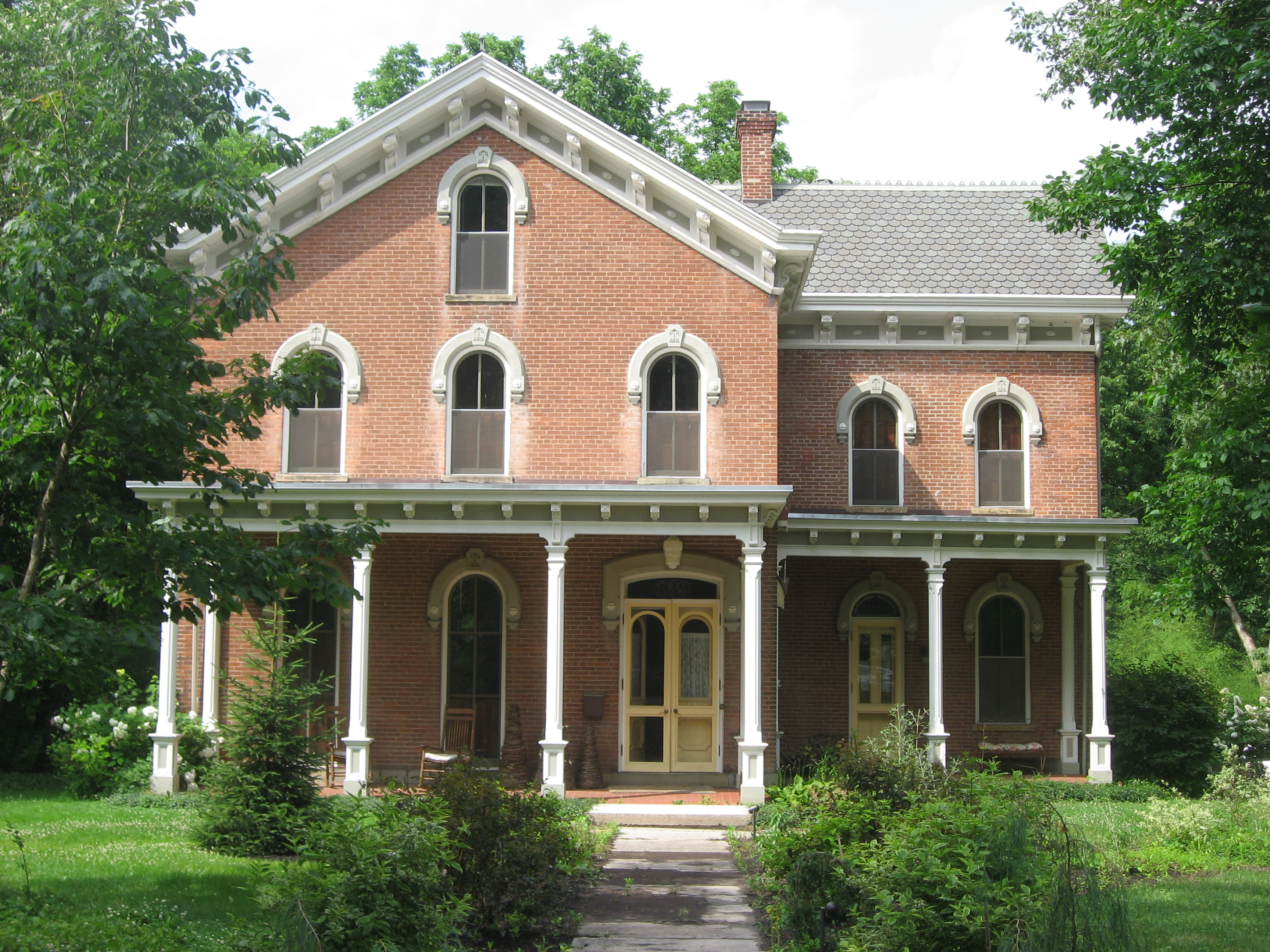 House at 139 E. Limestone Street in Yellow Springs, Ohio, United States. This house is a contributing property to the Yellow Springs Historic District, a historic district that is listed on the National Register of Historic Places.